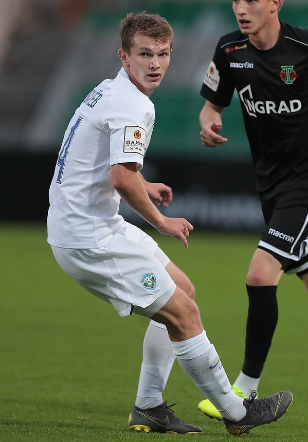 Konstantin Kovalyov with FC Avangard Kursk in a game against FC Torpedo Moscow.